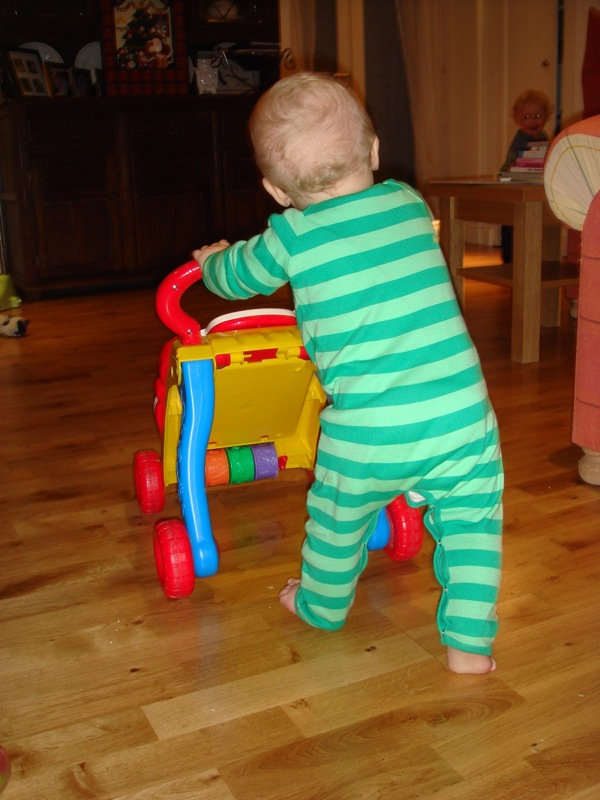 baby learning to walk